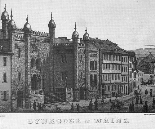 View of the old Hauptsynagogue in Mainz (1853-1912)